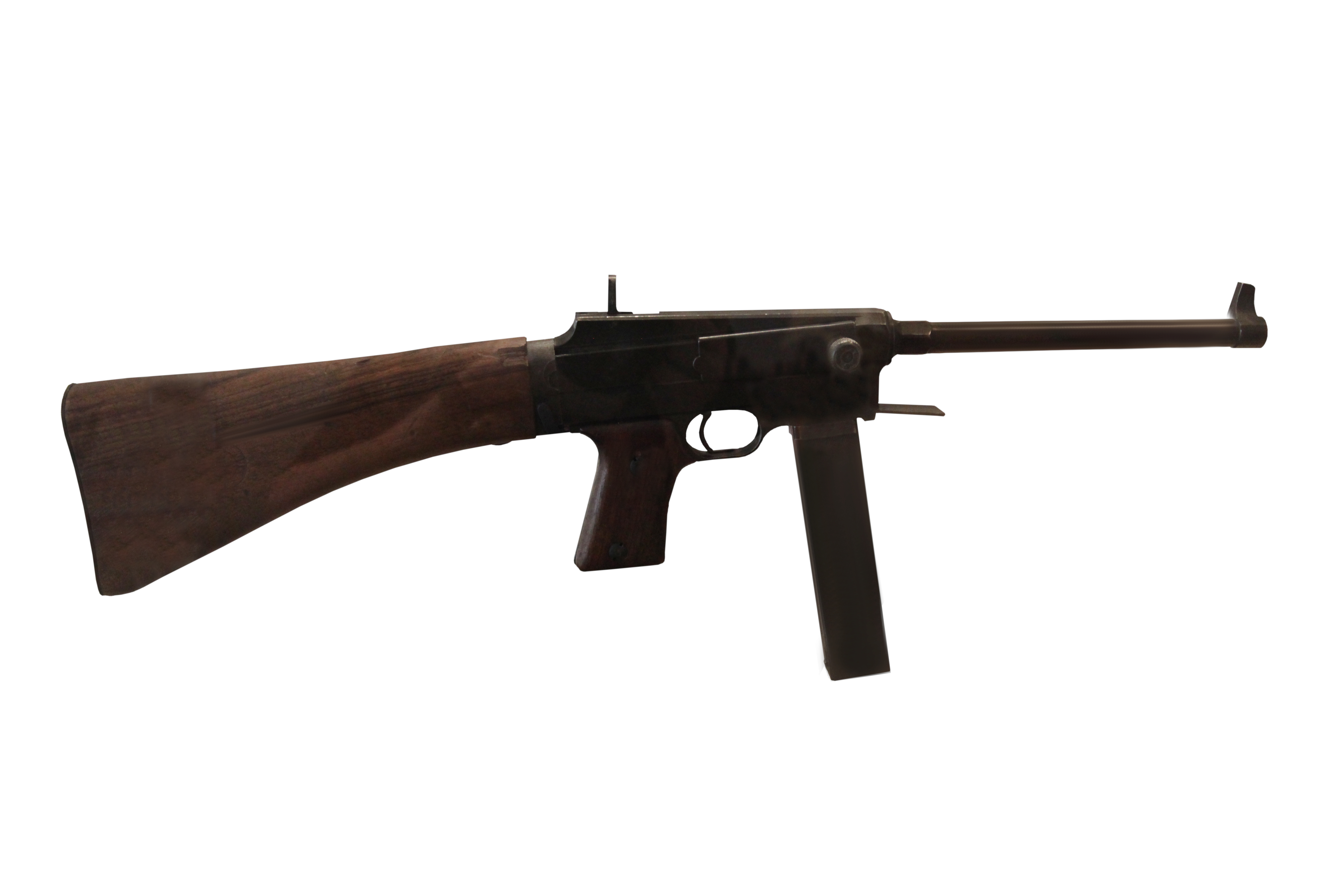 Prototype of the MAS 1938 submachine gun, model SE. France, 1935 (calibre 7.65mm, 2.9 kg, 63cm long). On display at Musée de l'Armée (Inv. 31115)